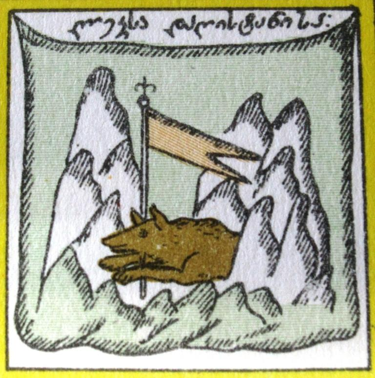 Wakhushti Bagrationi